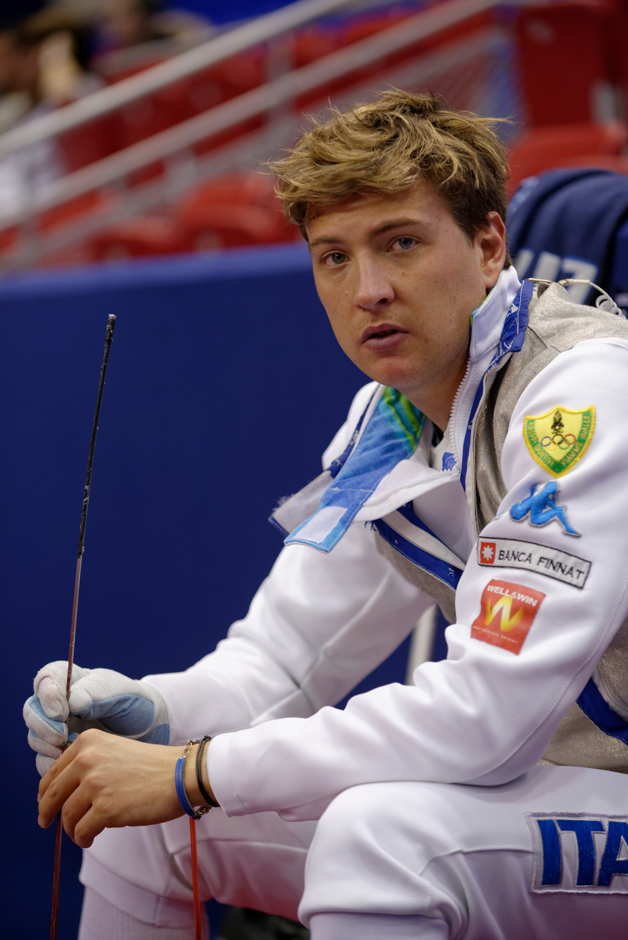 Valerio Aspromonte of Italy during their T16 match against Canada in the team event of the 2014 Challenge International de Paris (men's foil World Cup).